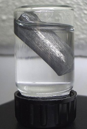 The very light metal lithium in oil